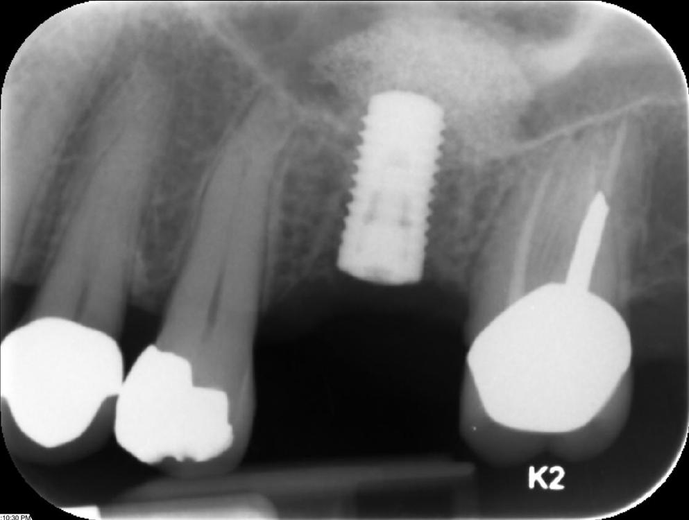 Straumann implant placed in site #14 (maxillary left first molar)